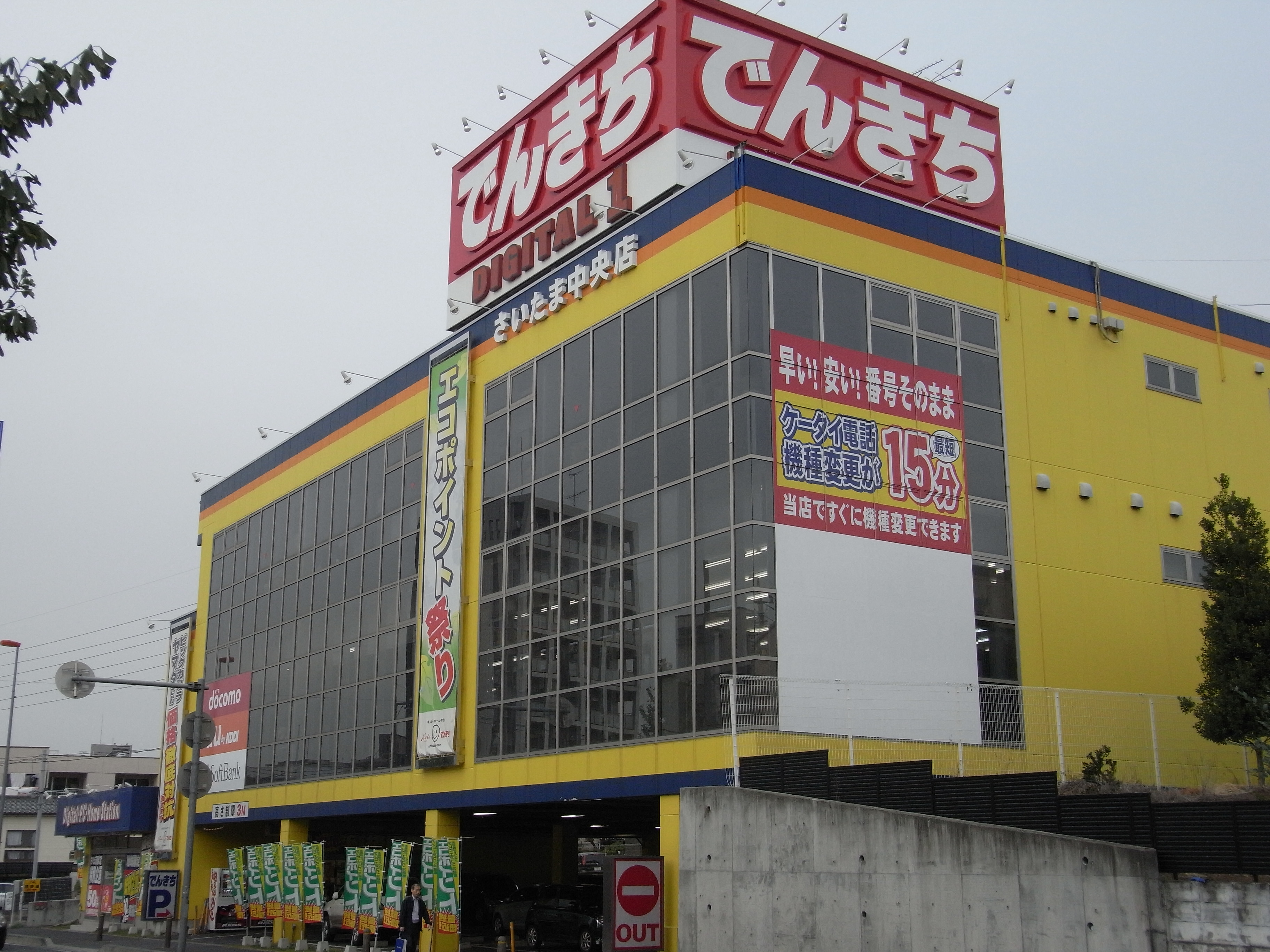 Denkichi Chūō-ku, Saitama